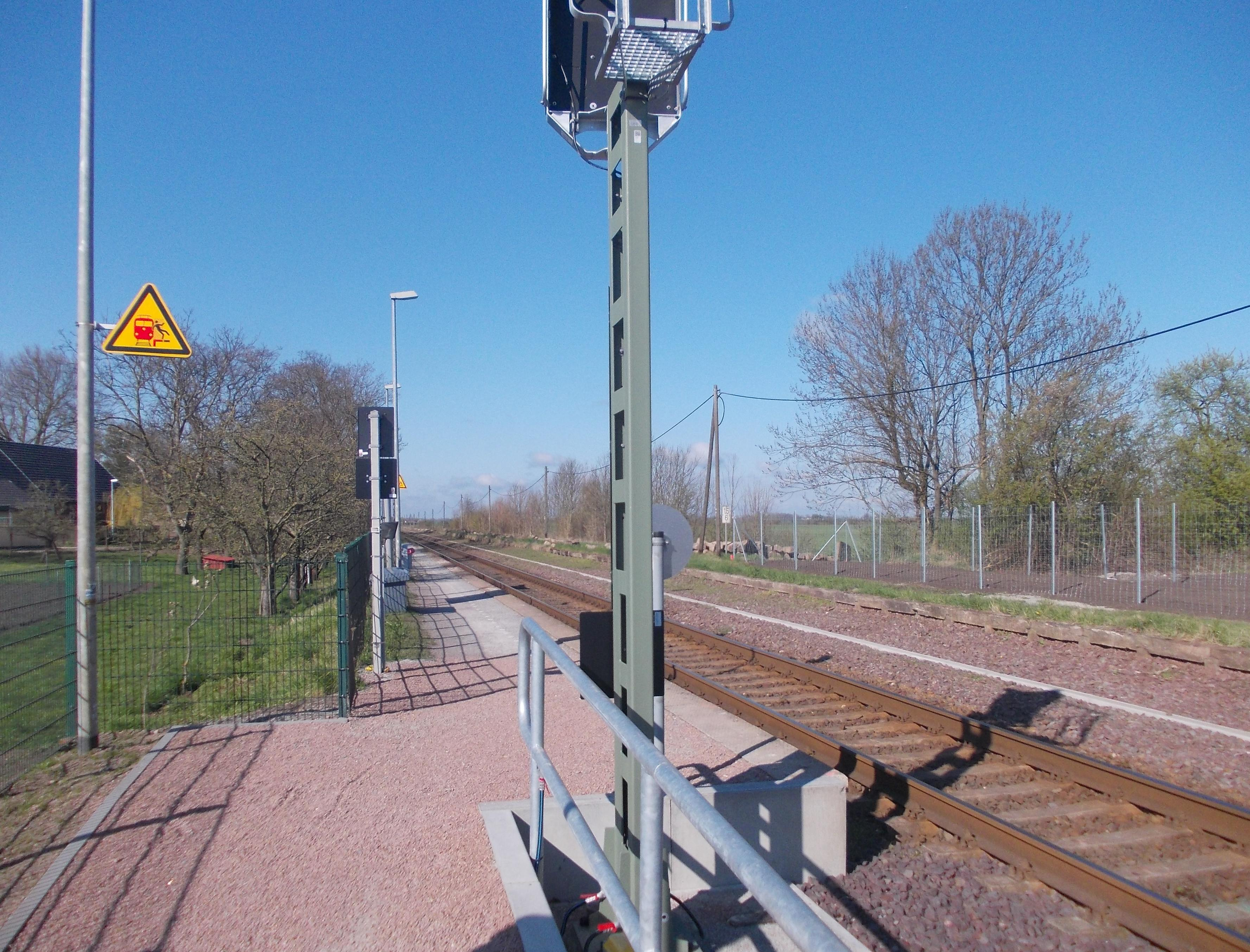 Osternienburg train station in Sibbesdorf (Osternienburger Land, Anhalt-Bitterfeld district, Saxony-Anhalt)